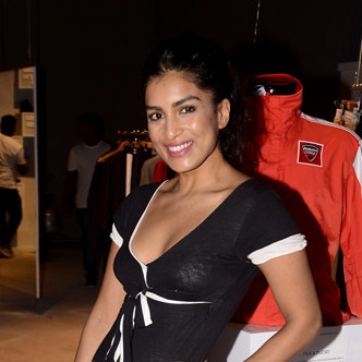 Pallavi in 2017